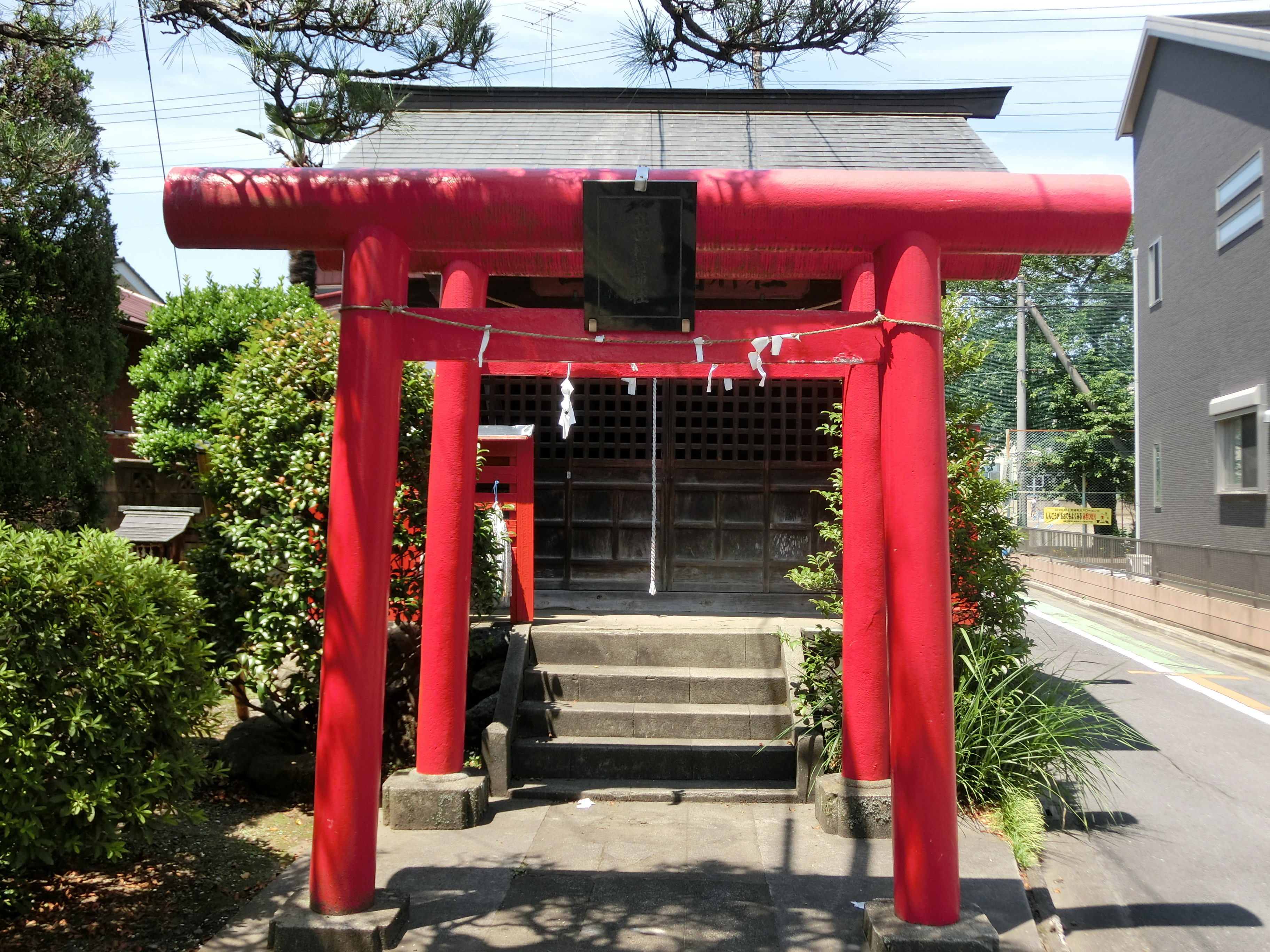 Shusse Inari Jinja (Hanno)